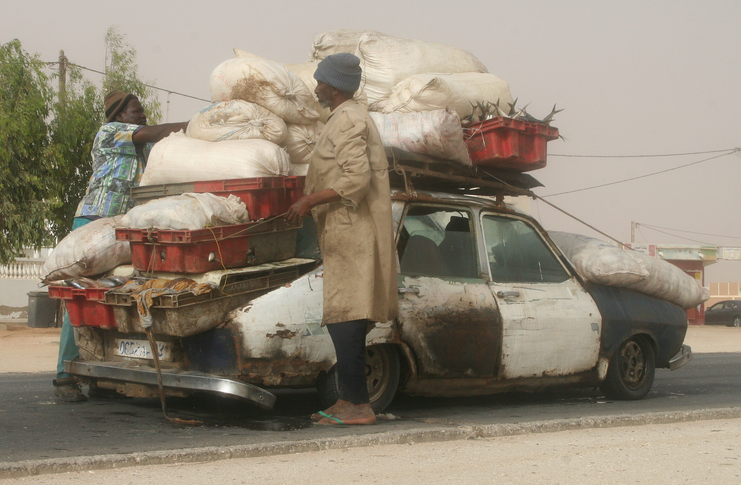 Most spectacularly loaded car that I have ever seen in Africa. This old renault 12 just came from the famous fish market in Nouakchott. Mauritania, June 2008